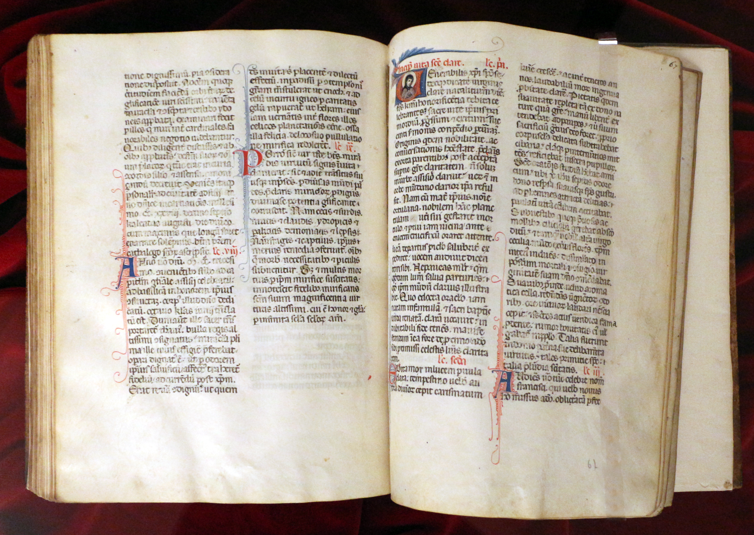 Biblioteca Medicea Laurenziana manuscripts